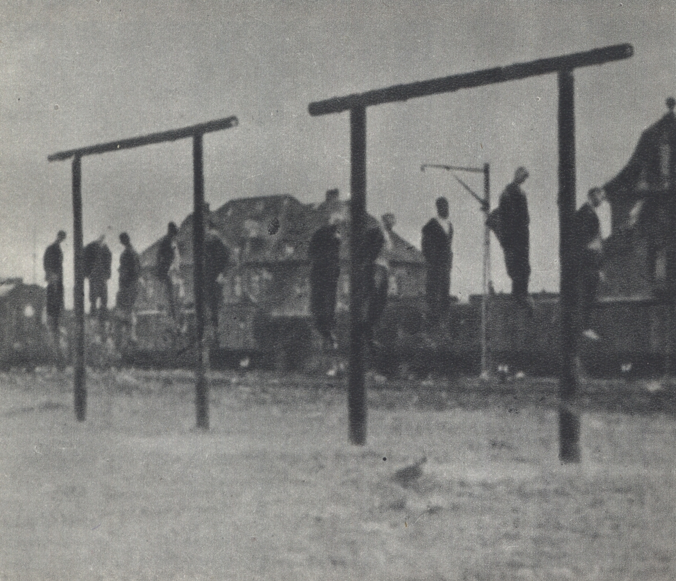 Public execution of Polish hostages in German-occupied Poland. Szczęśliwice district in Warsaw, 16th October 1942.